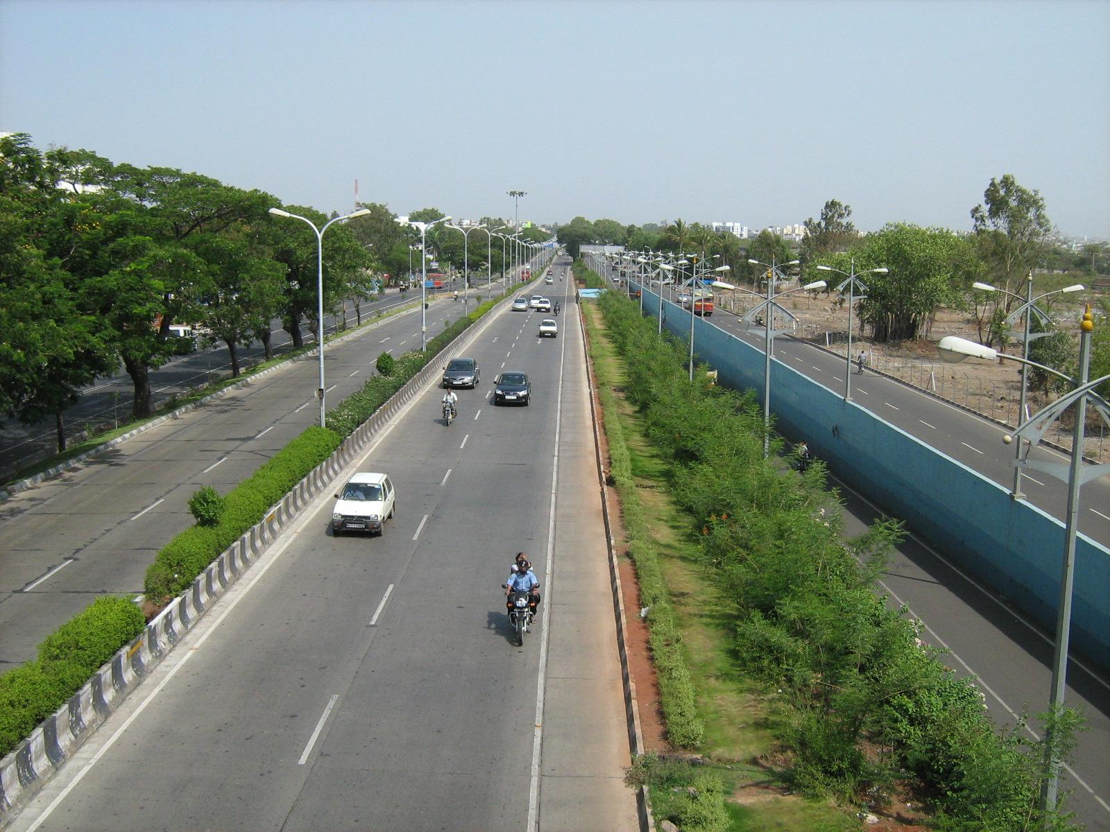 Old Pune Mumbai Highway as seen from a pedestrian over bridge in Pimpri